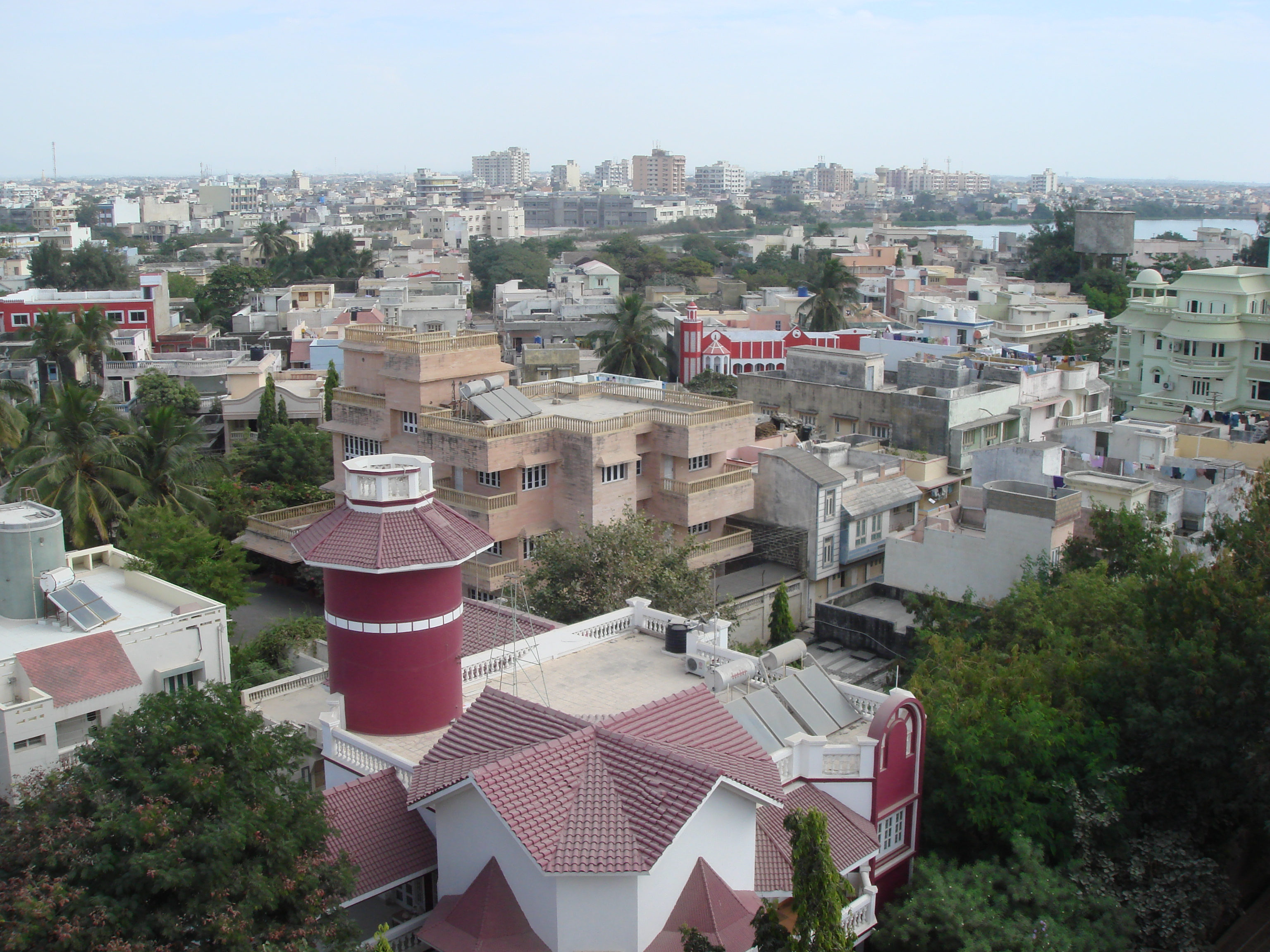 Porbandar skyline